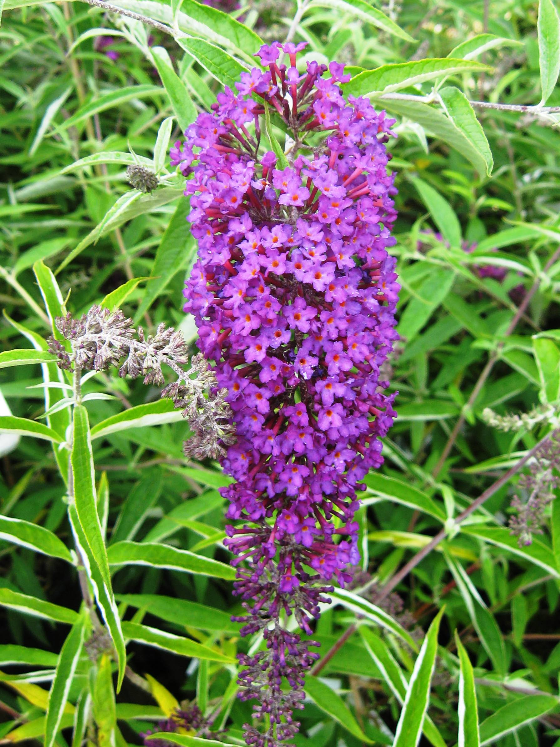 Photo of Buddleja davidii 'Nanho Purple' taken at Longstock Park nursery, UK, national collection holders.